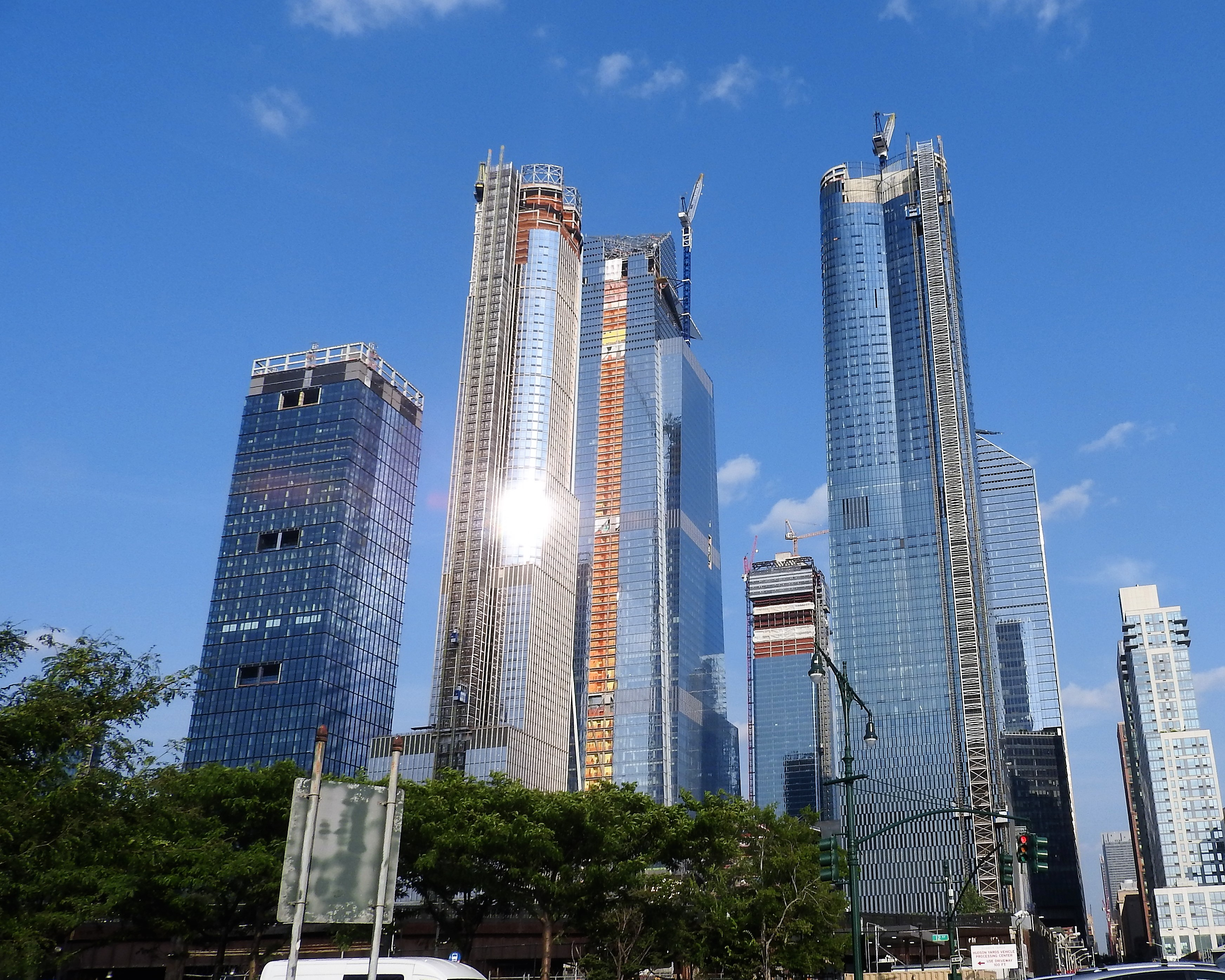 Looking east from Greenway and 30th Street on a sunny August afternoon